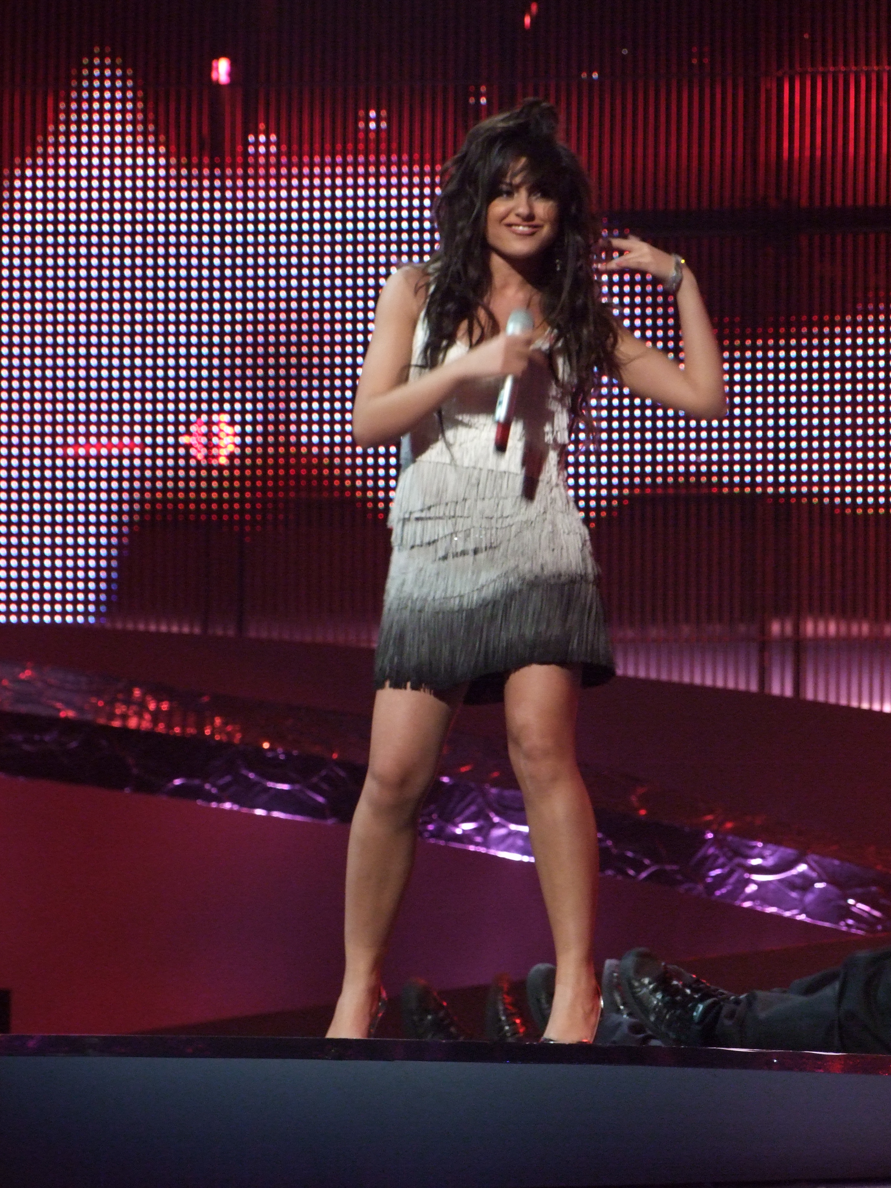 Sirusho, representative of Armenia in Eurovision Song Contest 2008. Taken in Belgrade, 2008. Personality rights warningAlthough this work is freely licensed or in the public domain, the person(s) shown may have rights that legally restrict certain re-uses unless those depicted consent to such uses. In these cases, a model release or other evidence of consent could protect you from infringement claims.